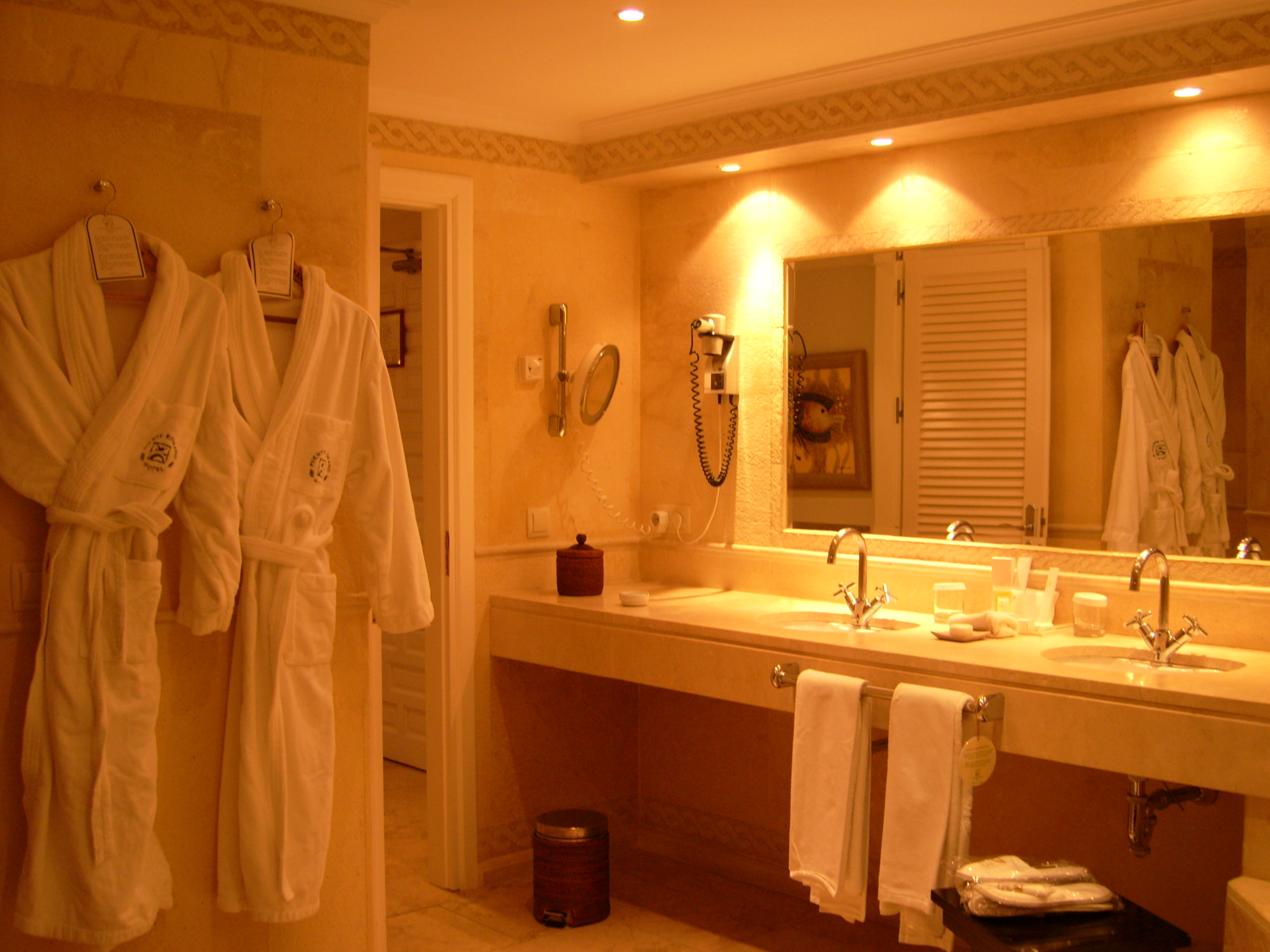 Hotel Suite - Bathroom